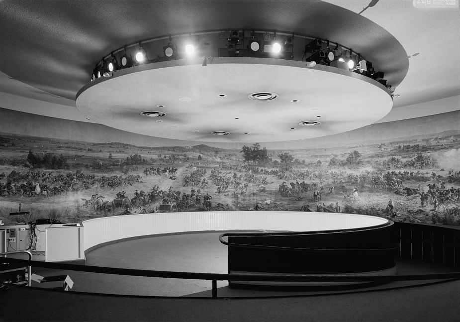 Interior view of Richard Neutra's Cyclorama Building showing the Gettysburg Cyclorama, painted by French artist Paul Dominique Philippoteaux and located on the Gettysburg Battlefield in Gettysburg, Pennsylvania